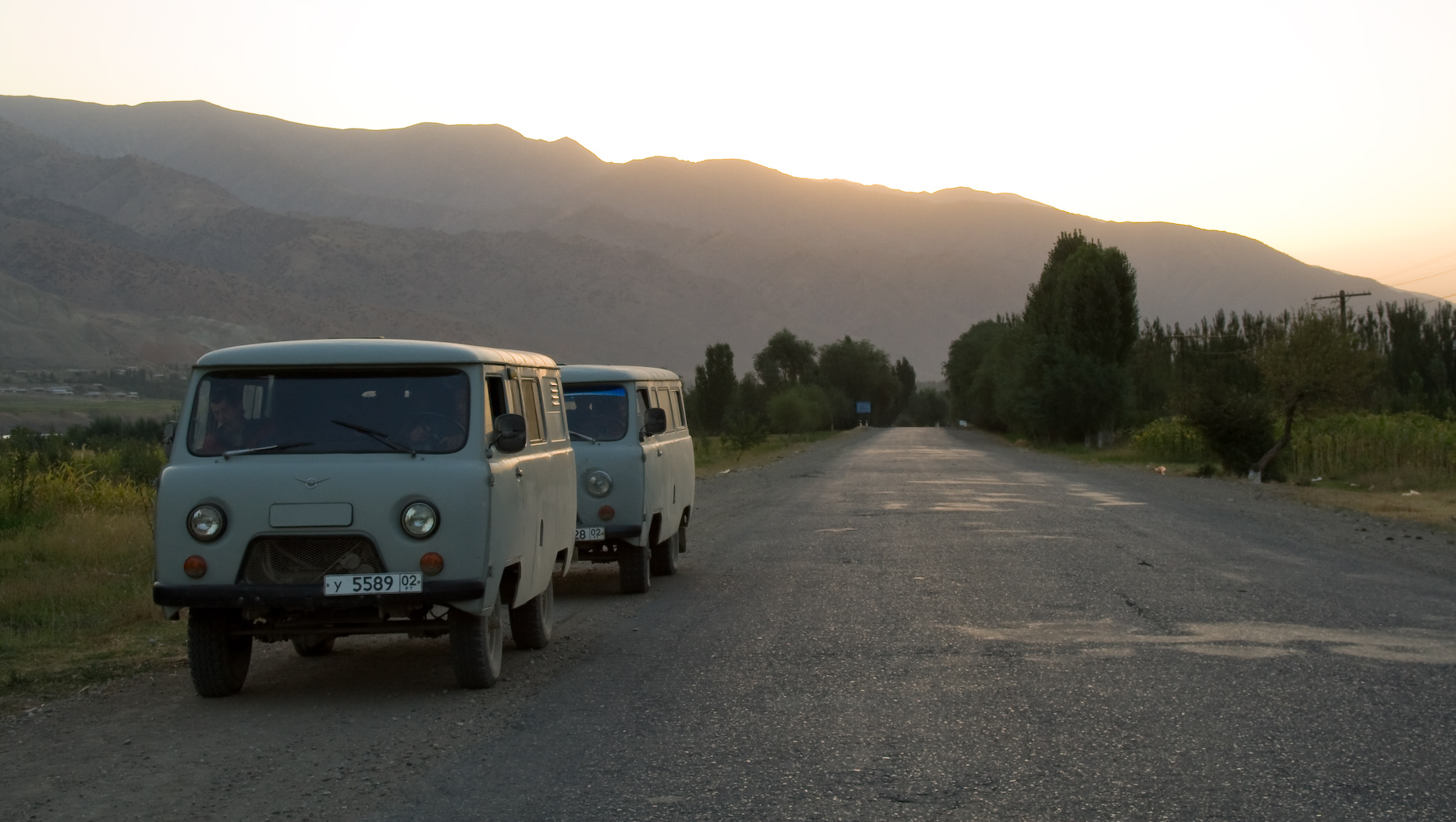 Two UAZ-452 with Tajik license plate